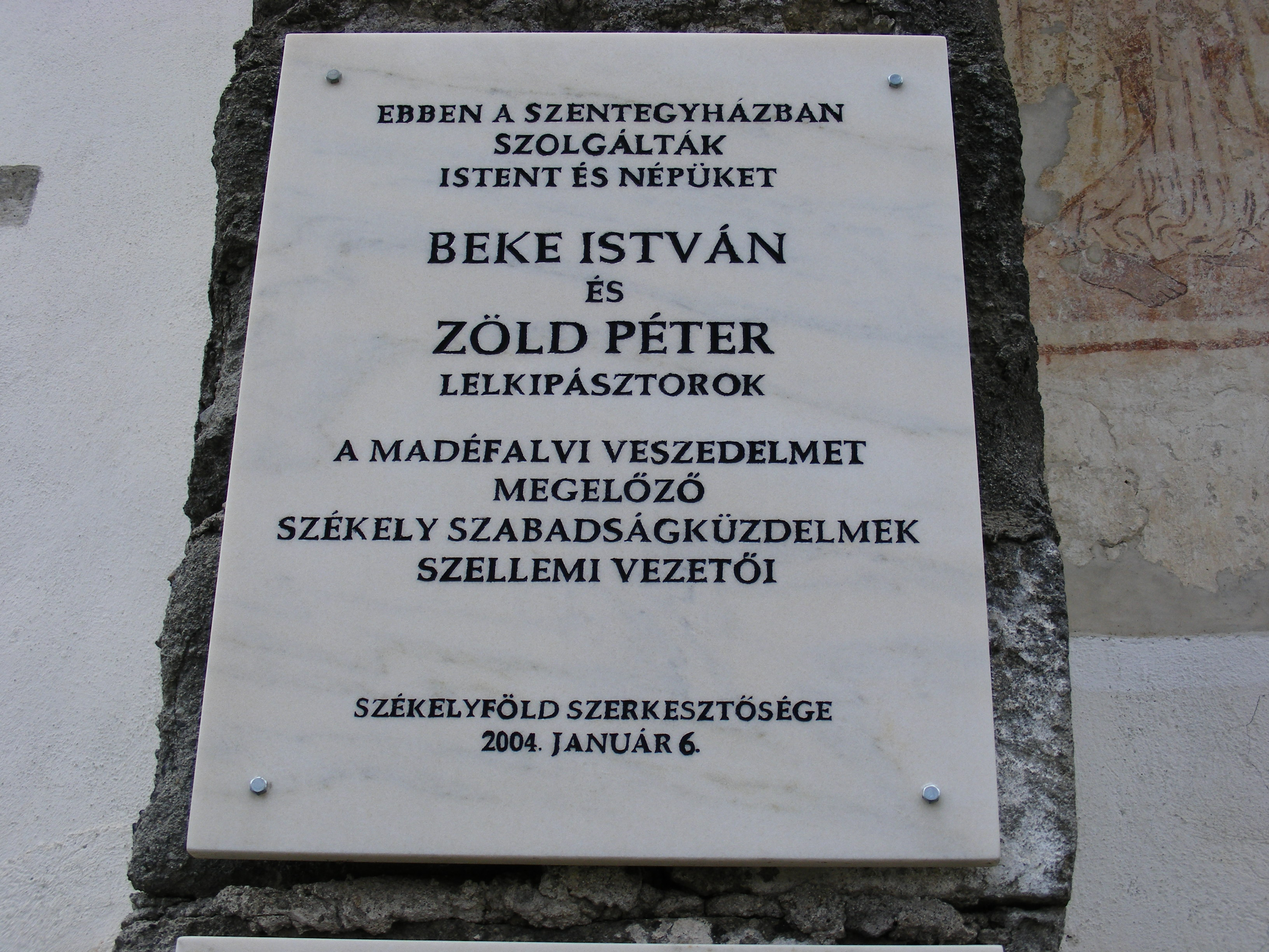 A memorial for two priest: Zöld Péter and Beke István, who were the leader of the székely movement against the Habsburg's.